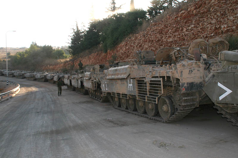 A column of IDF AFVs. The nearest vehicles are Puma combat engineering vehicles, the distant ones are Achzarit heavy APCs.